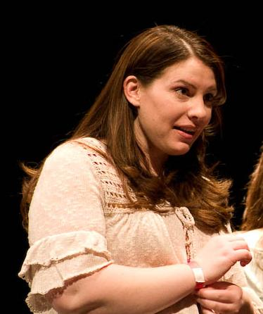 Stephenie Meyer talks with one of the winners of her auction.